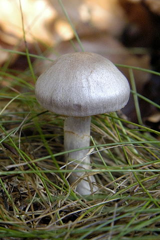 Cortinarius azureovelatus from Commanster, Belgium. If you think this is a different taxon, please contact James Lindsey.